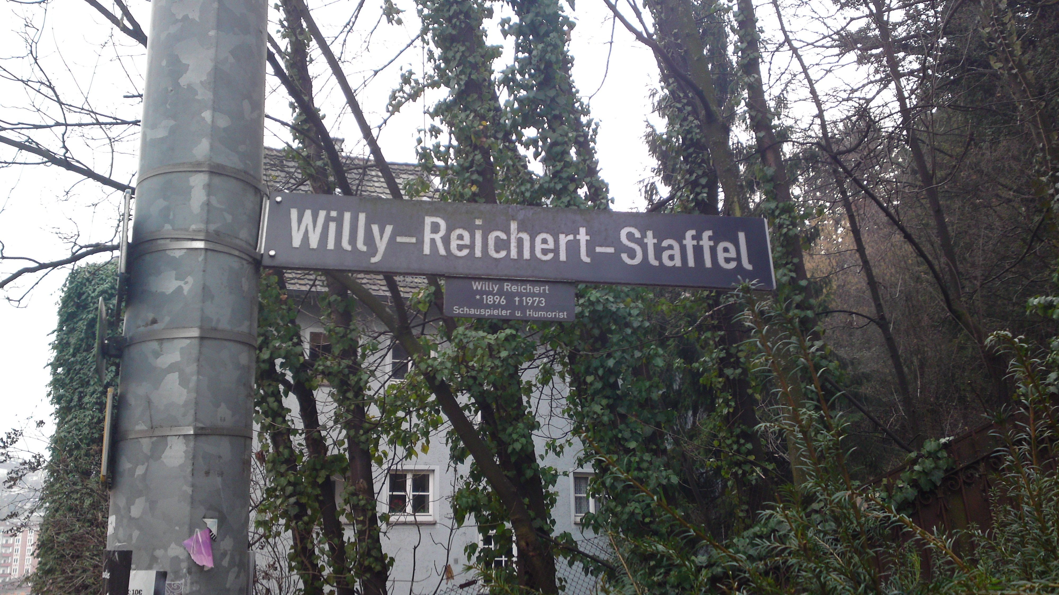 Willy-Reichert-Staffel in Stuttgart.